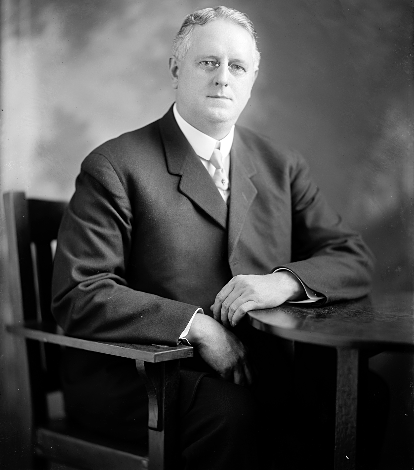 Edward Gilmore, US Representative from Massachusetts